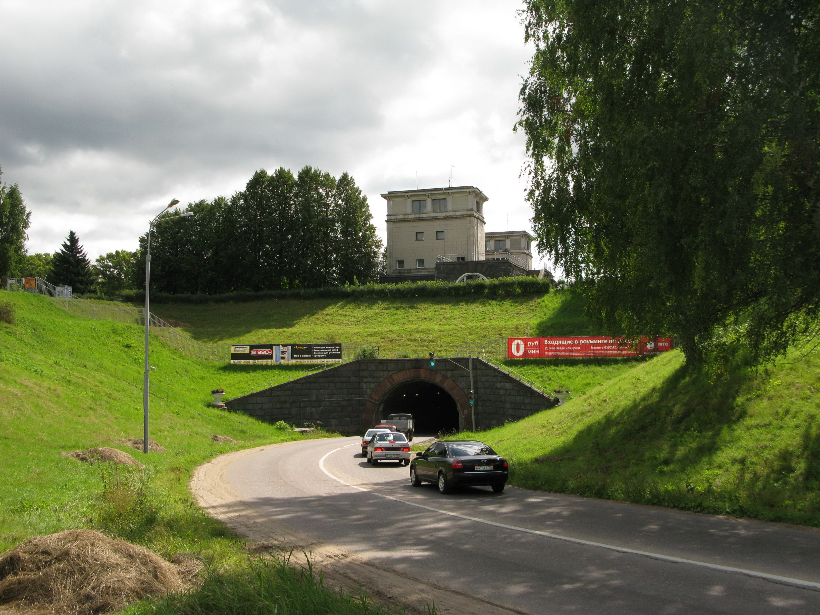 Tunel under floodgate and channel